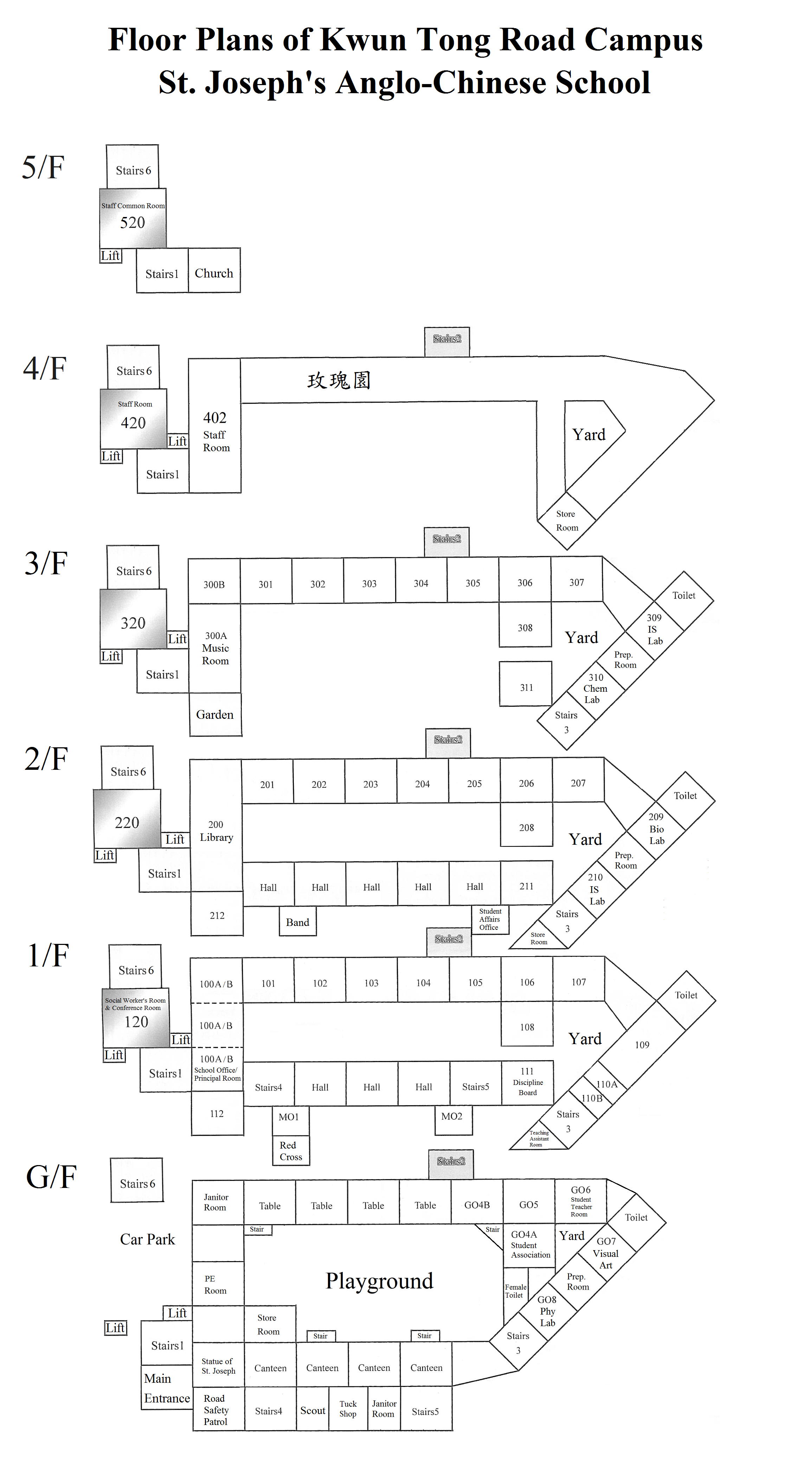 This is the floor plan of SJACS Kwun Tong Road campus, Hong Kong. It is created by using Microsoft Paint. 中文（香港）: 這是香港聖若瑟英文中學觀塘道校舍樓層平面圖。用小畫家繪畫而成。 Additional Information: PE Room - G01, Teaching Assistant Room on 1/F - 110C, Store Room on 2/F - 210A, G04B - Dim Room for photography（黑房）, Store Room on 4/F - Joint School Science Exhibition（聯校科學展覽）, Church - 501